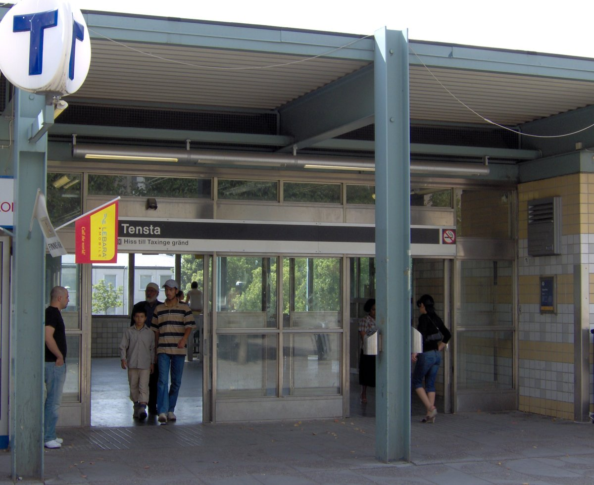 Entrance to the Stockholm metro station Tensta.